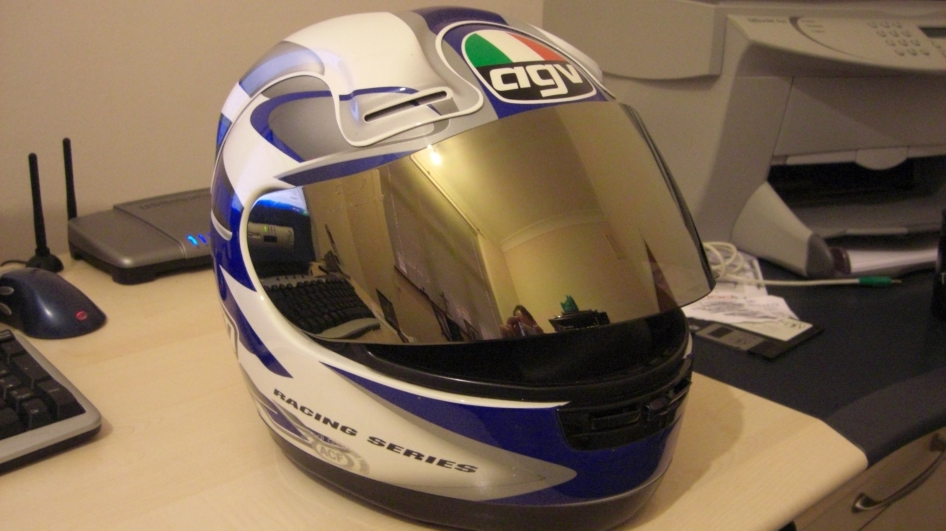 My AGV X-Vent R (Q3) motorcycle helmet w/ Gold Visor. Cool huh.